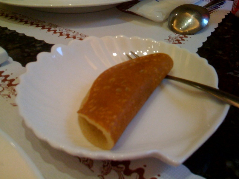 Red bean pancakes, known in Japan as "dora-yaki" and "Hon Do Po Bin" in China, are crepe-like sweet pancakes that are popular all over Asia. The pancakes are made of common ingredients: light wheat flour, sugar, oil, and eggs. The filling is made with red bean paste, made from Azuki beans. A typical preparation involves placing some red bean paste on each cooked pancake and then rolling it up into a cylinder shape before serving.